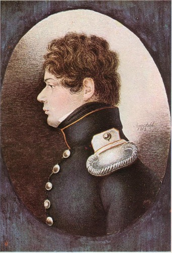 Count Zakhar Chernyshov (1796-1862)